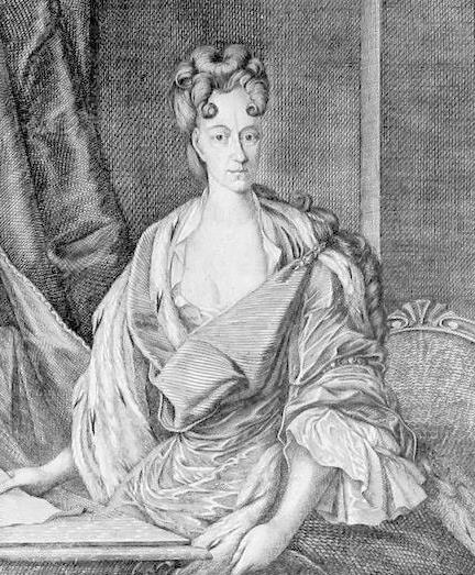 Portrait of Charlotte Louise of Isenburg-Büdingen-Birstein (1680-1739), wife of Victor I, Prince of Anhalt-Bernburg-Schaumburg-Hoym, cropped